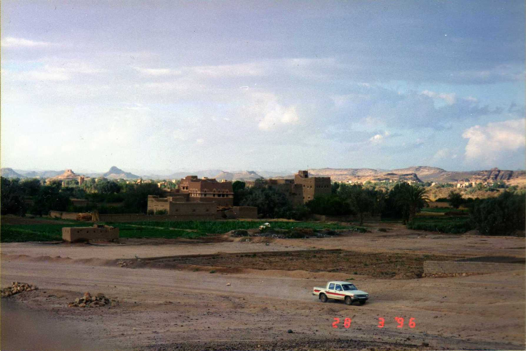 View form the city walls in Saadah